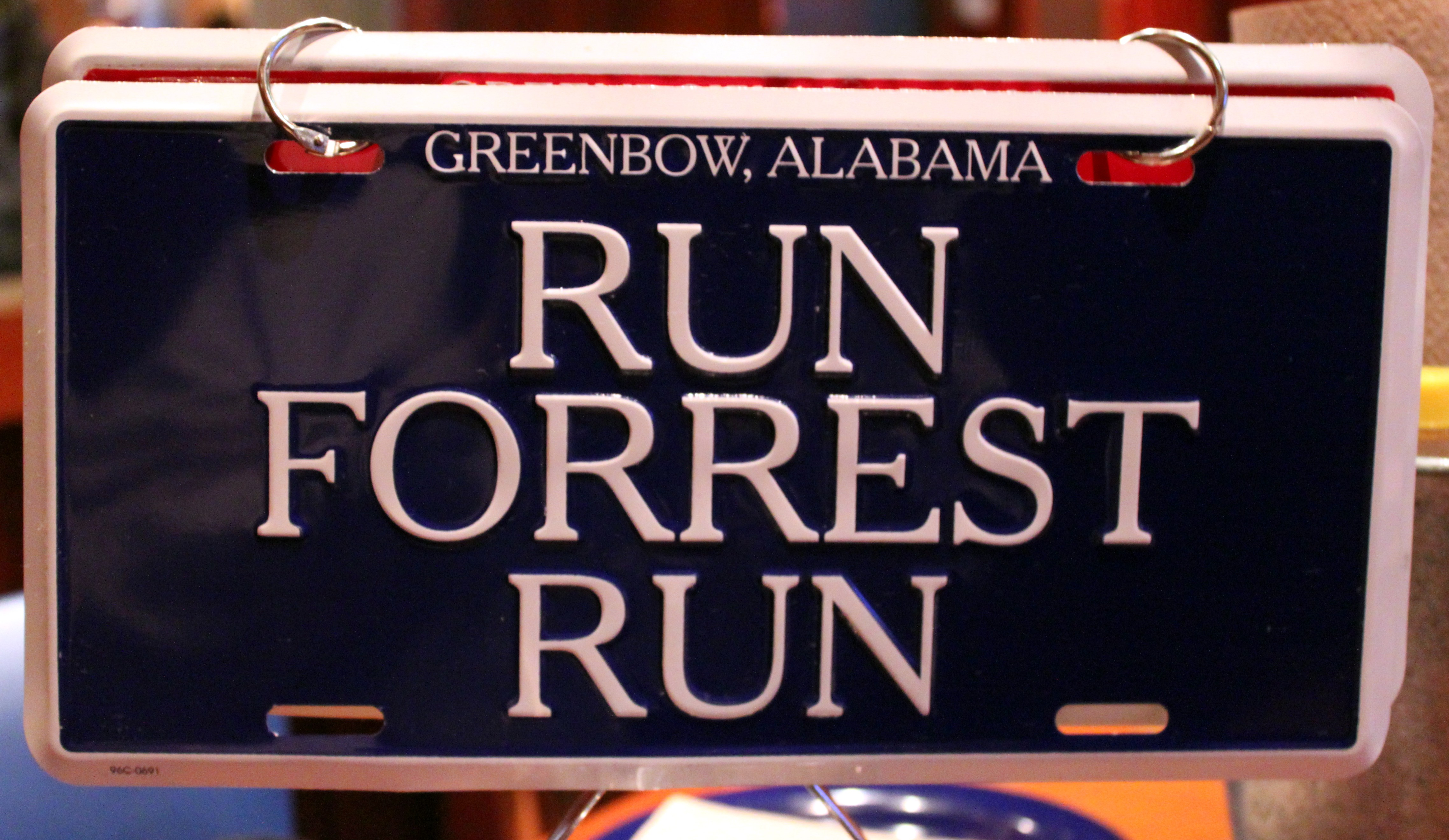 Plate with a quote from the film Forrest Gump at Bubba Gump Shrimp restaurant in Hollywood, California, USA.